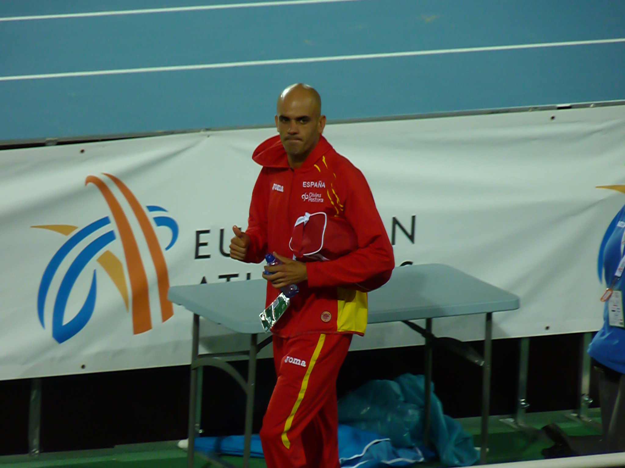 Reyes Estévez - 2010 European Championships in Athletics